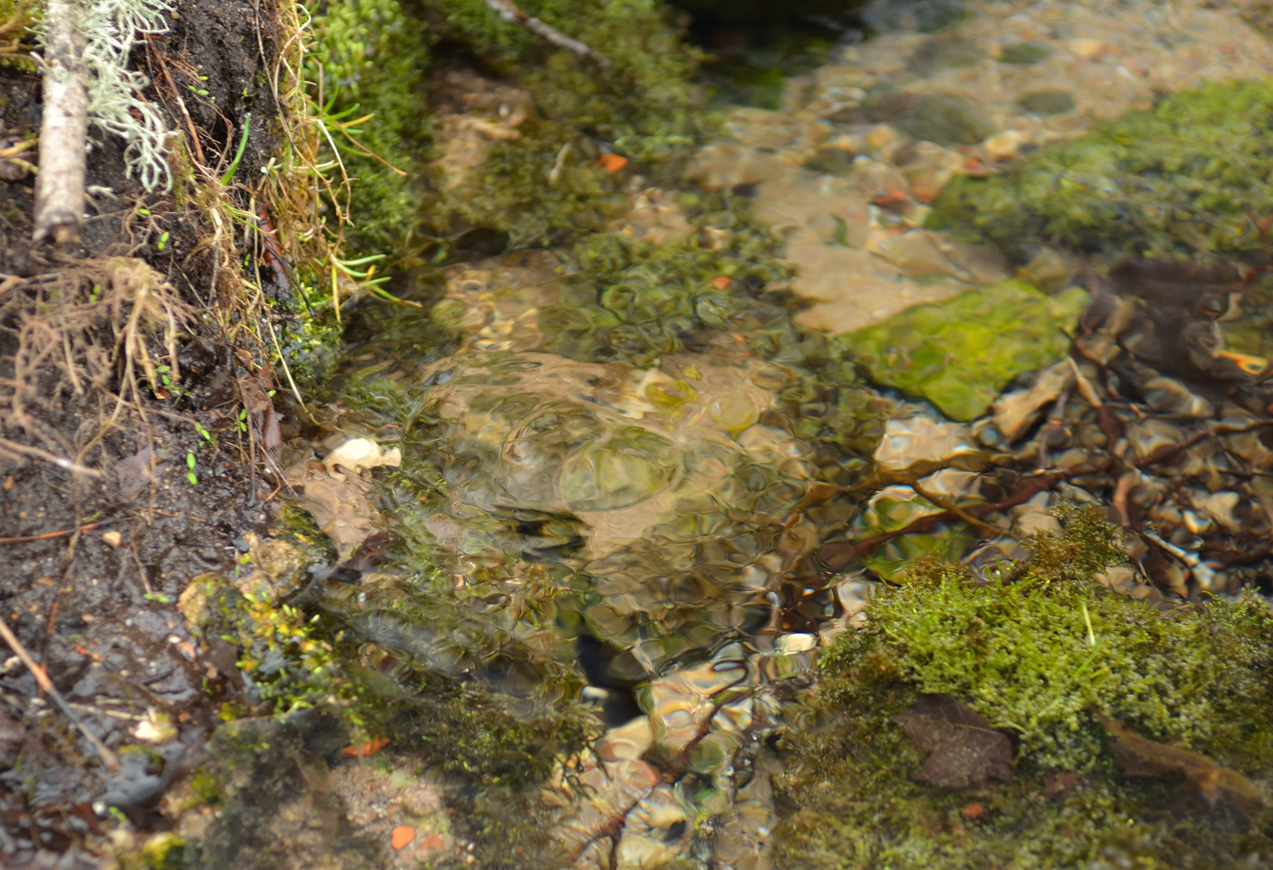 Simuna spring, the beginning of Pedja river